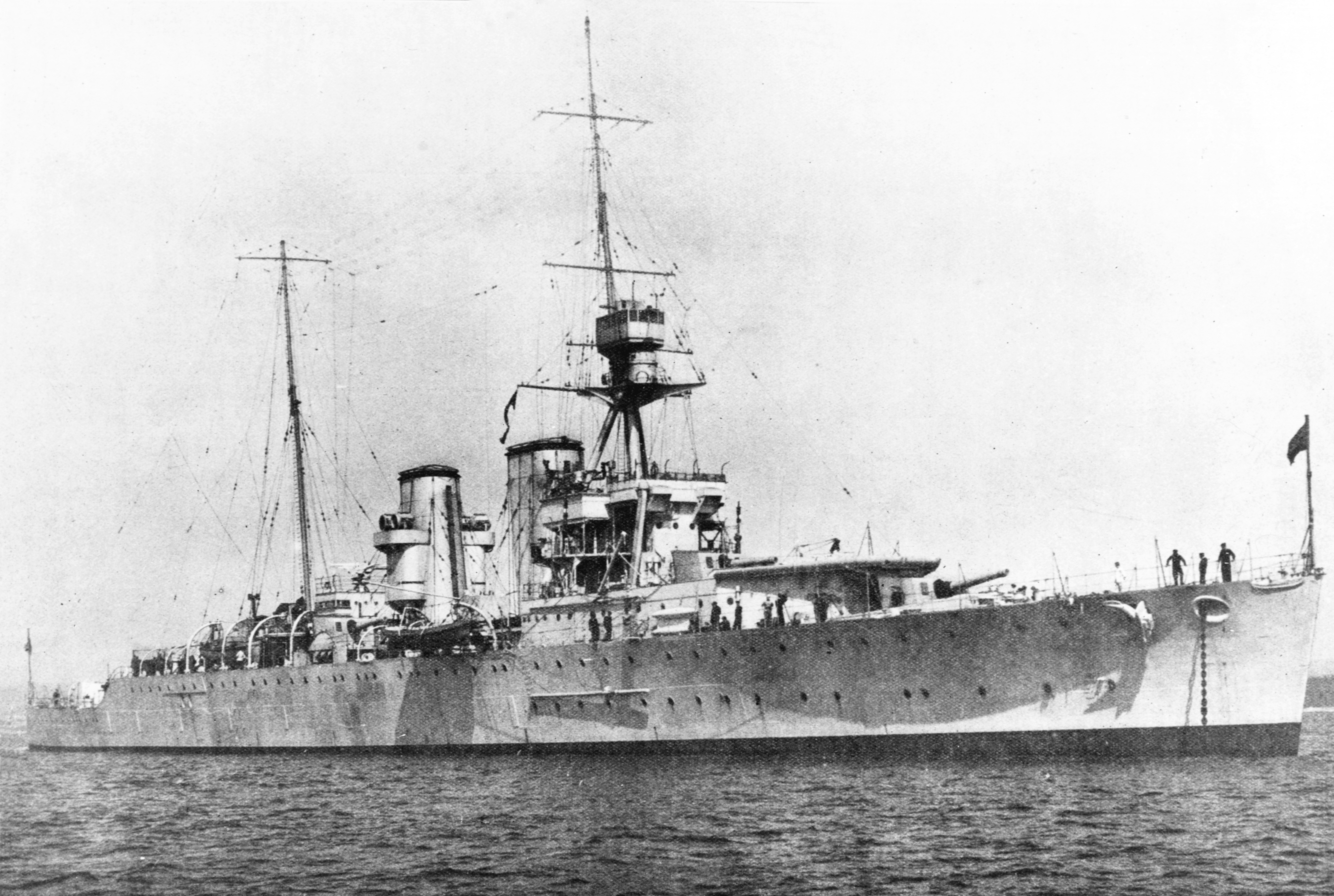 The Royal Navy heavy cruiser Heavy cruiser HMS Effingham (D98) in 1925.